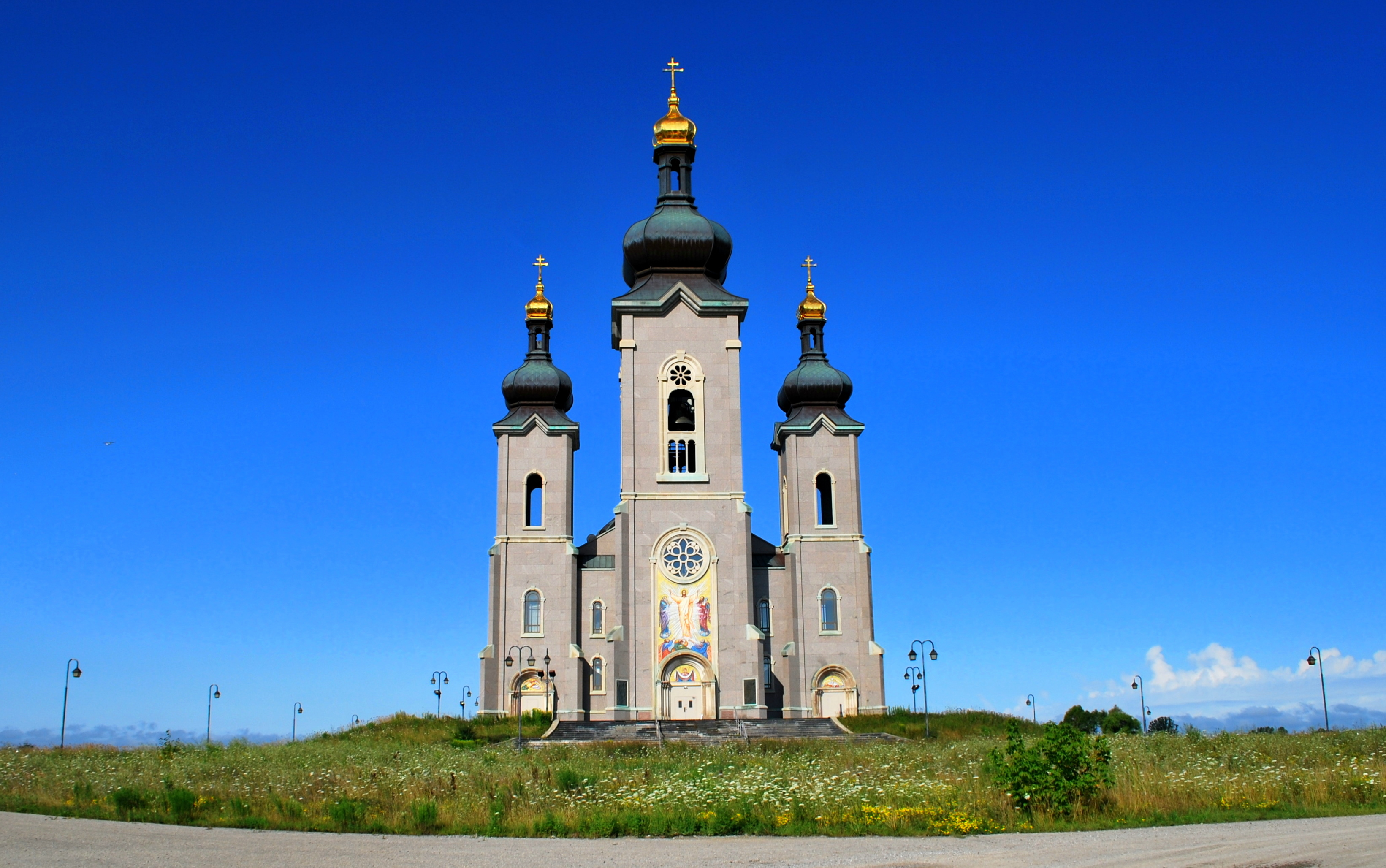 The Cathedral of the Transfiguration in Markham, Ontario, Canada.